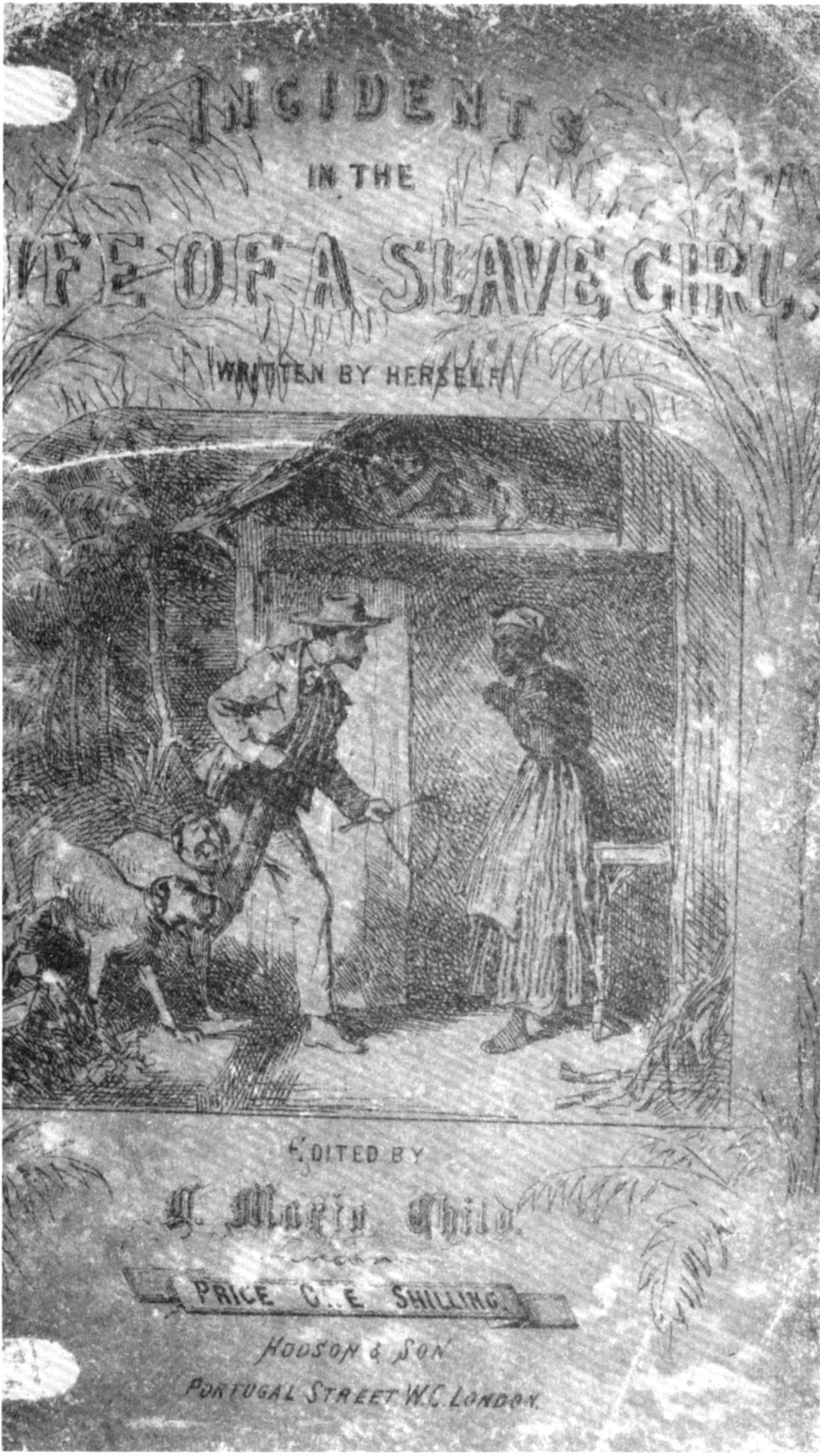 Cover of the pirated edition of Incidents in the Life of a Slave Girl showing Harriet Jacobs hiding in the attic as a slavecatcher confronts her grandmother. London, 1862